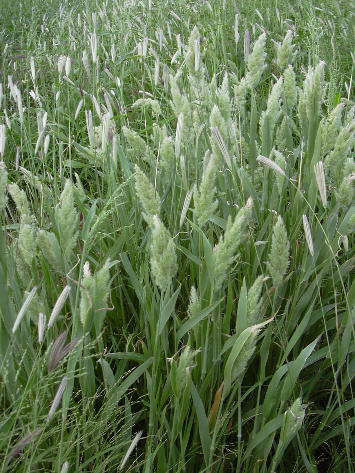 Panicum torridum (habit). Location: Kahoolawe, Lua Kealialalo